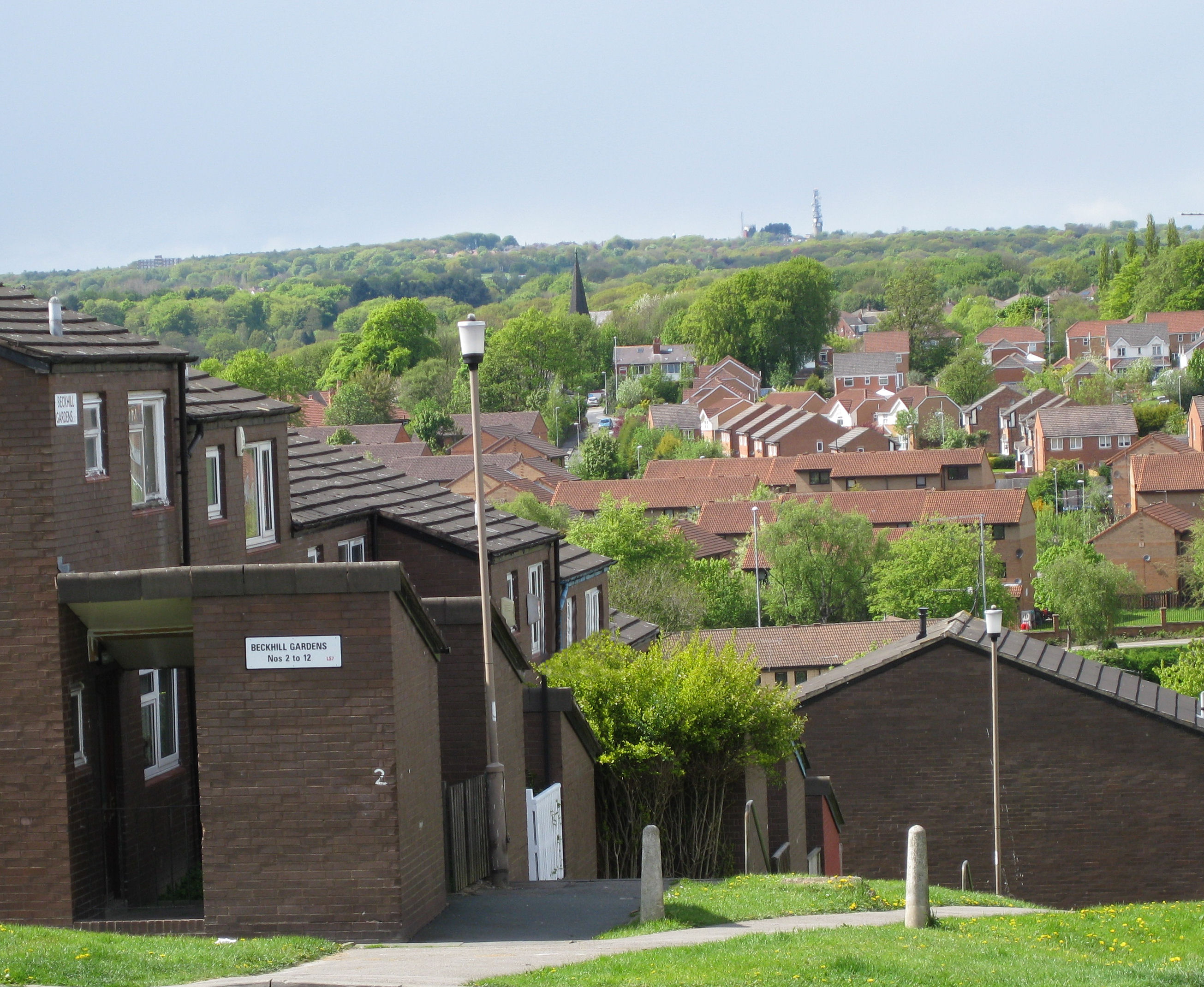 View from Beckhill Gardens, Leeds LS7. Looking NW over the Stonegate estate. The Tinshill BT Tower (Cookridge) can be seen on the horizon.